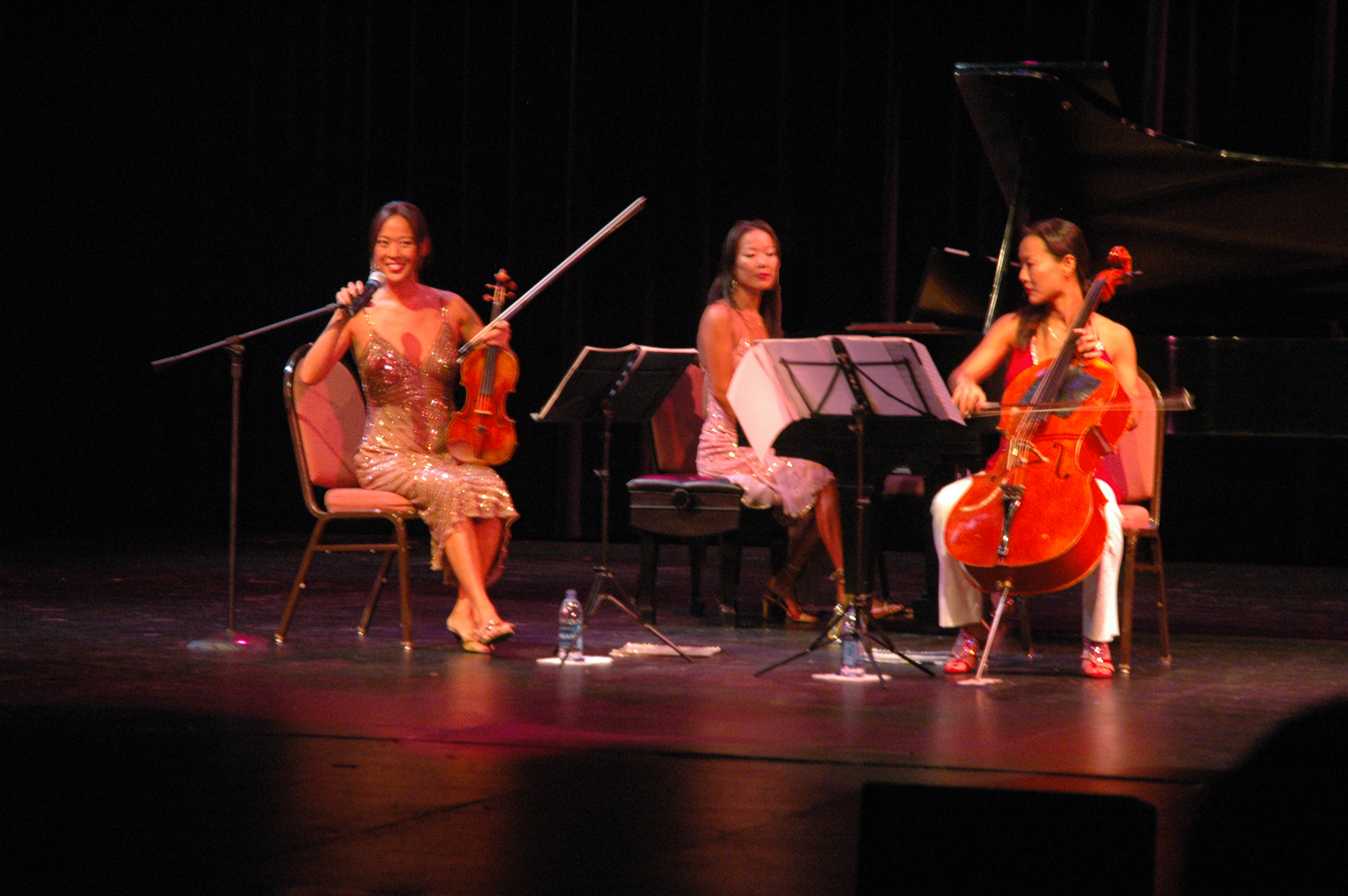 These are the Ahn sisters, an amazing trio of musicians. We enjoyed them very much. They were very kind to appear here last Friday in the middle of Oklahoma, given that everyone east of the Mississippi thinks that Oklahoma is still a wild territory with corn as high as an elephant's eye. The concert was excellent. The girls were very personable. Here one is asking the audience if anyone knows how it is to travel with a cellist. I avoided a flash and shot the evening with a 70mm lens and available light. Not all shots were clear because the sisters were very animated when playing.